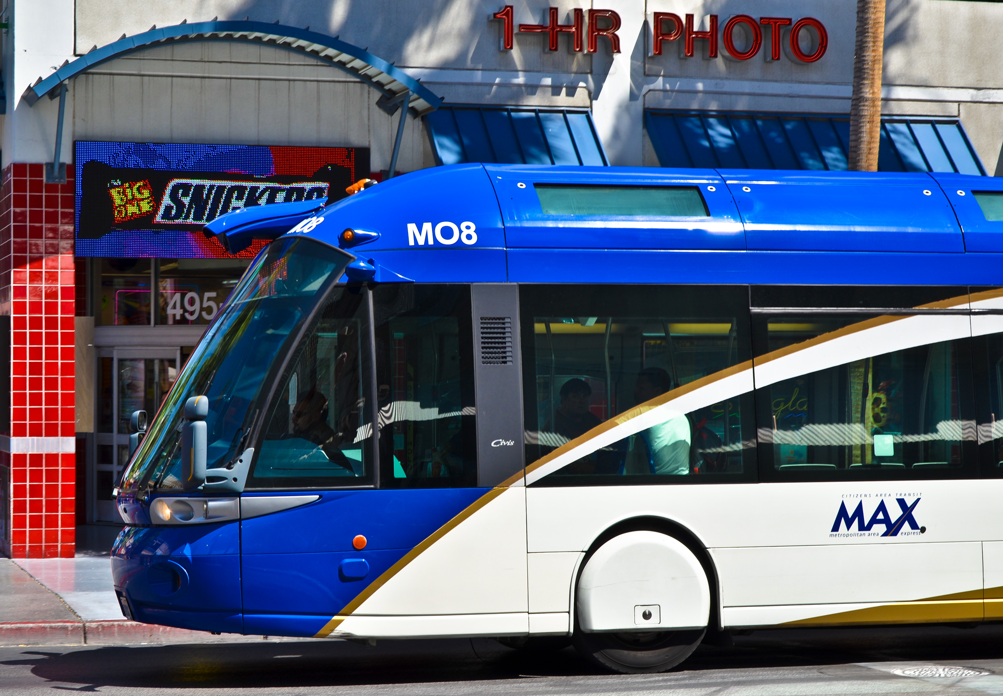 TGelCoto